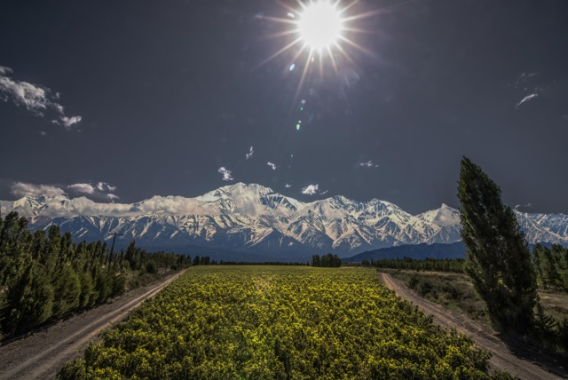 viñedo adrianna en mendoza argentina con montaña de fondo